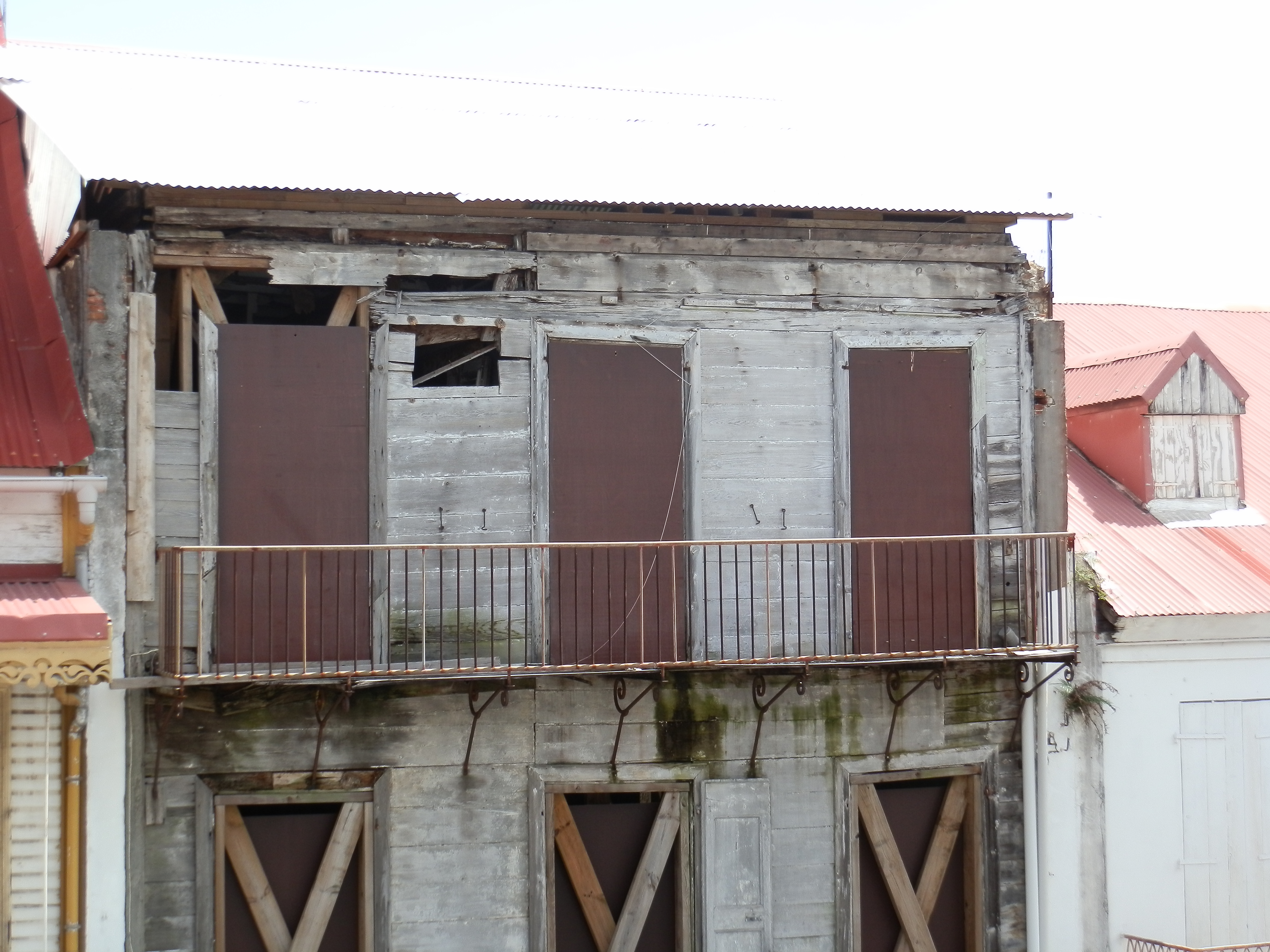 Second floor of native house of Saint-John Perse, 54 rue Achille René Boisneuf, Pointe-à-Pitre, Guadeloupe, France